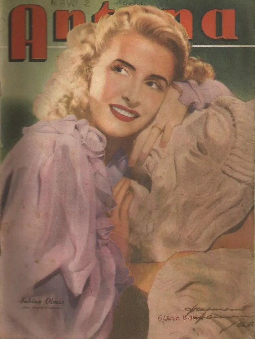 Sabina Olmos on Antena cover, 1949